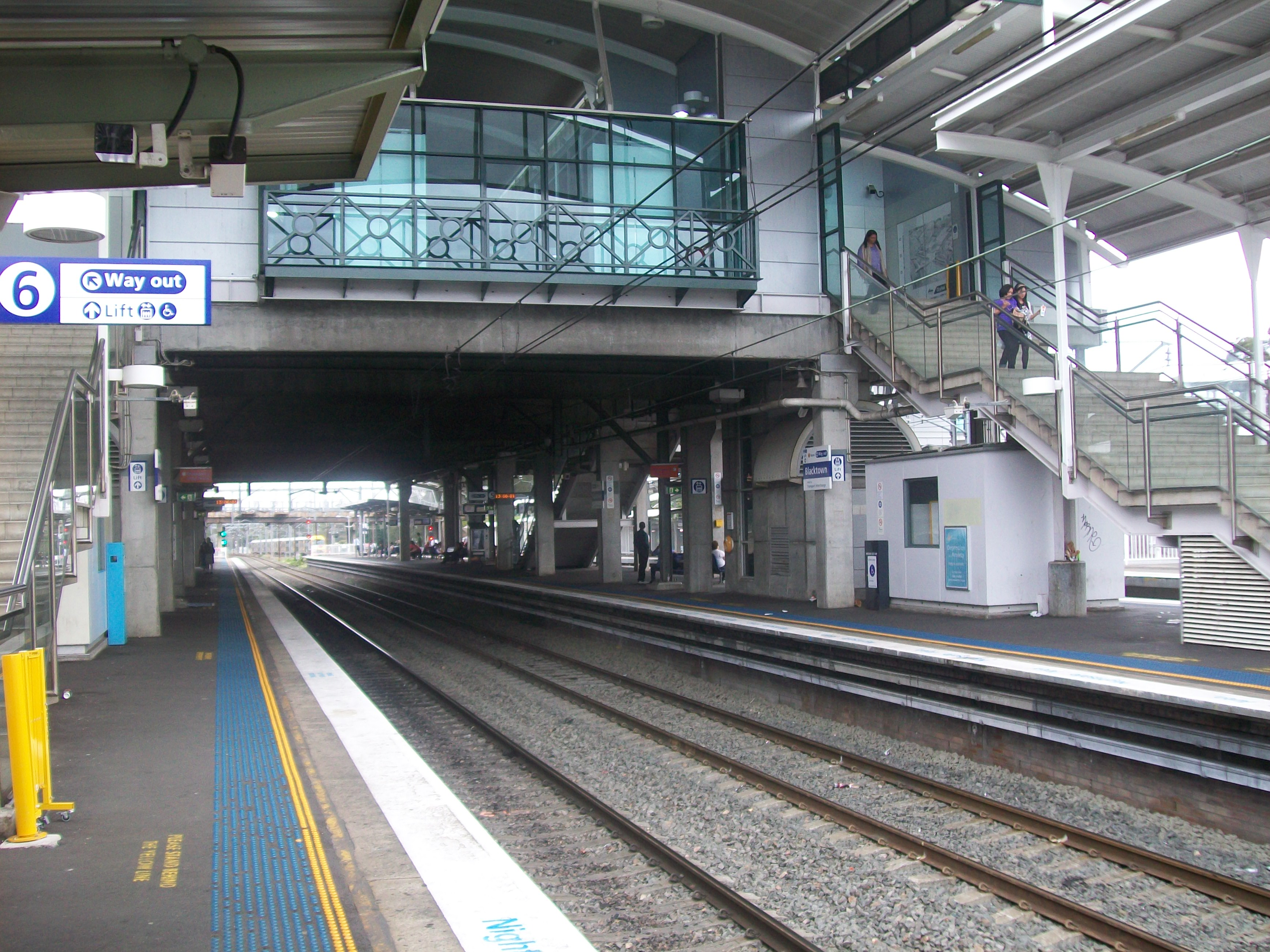 Blacktown railway station platform 6